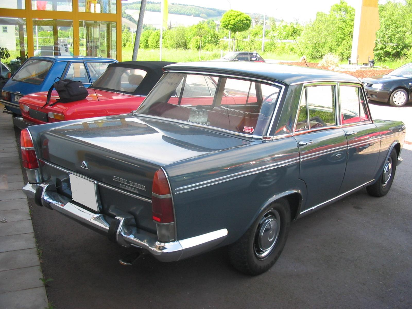 Description Fiat 2300 DateMay 2005SourceOwn workAuthorDirk dk67 Fiat 2300